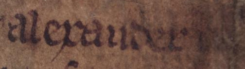 An excerpt from folio 57r of Oxford Bodleian Library MS Rawlinson B 503 (the Annals of Inisfallen). The excerpt refers to a man who appears to have been slain in Ireland in 1318. The name reads "Alexander M" before the rest of the name is cutoff as a result of the damaged manuscript. The name may refer to a man named Alasdair Mac Domhnaill, a man who must have been a leading Clann Domhnaill dynast.